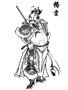 An illustration of Yang Ye from a 19th century novel print.